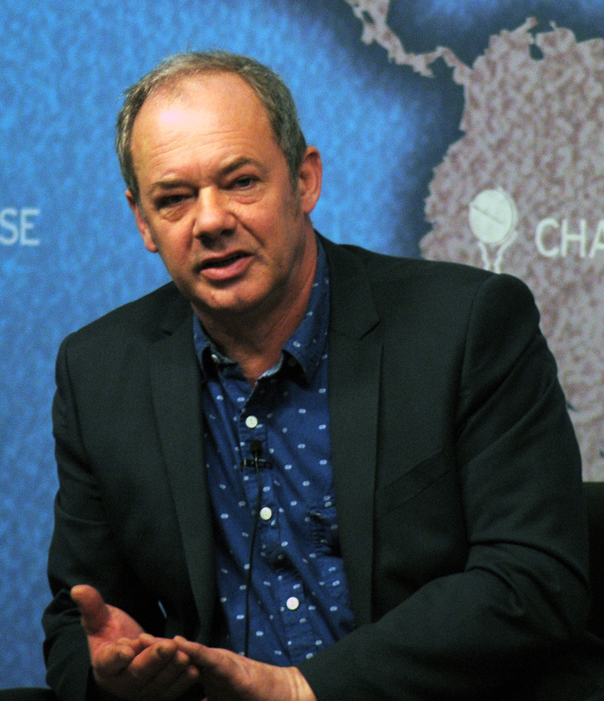 The Political Impact of Documentaries, 12 April 2013 cht.hm/12RLezn